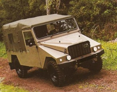 UMM cournil 1979